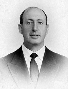 Joaquim Fiúza, passport photo